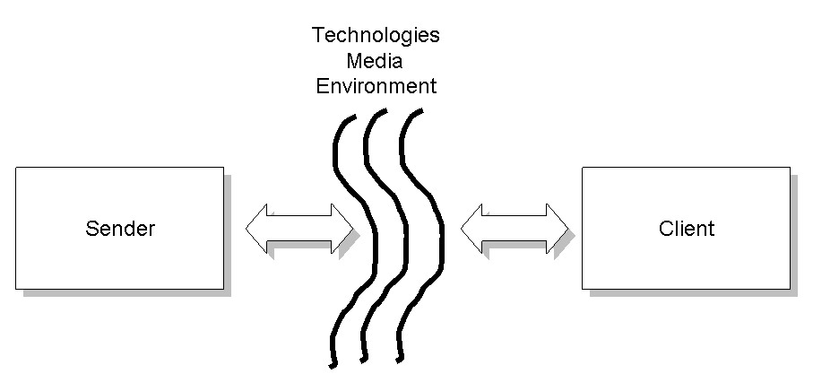 The basic informing system, taken from Gill & Bhattacherjee's 2007 article in Informing Science